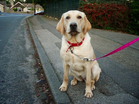 Eric Armitage Grandfather who gave permission through an email Digital camera Dog called Maisie belonging to my cousins